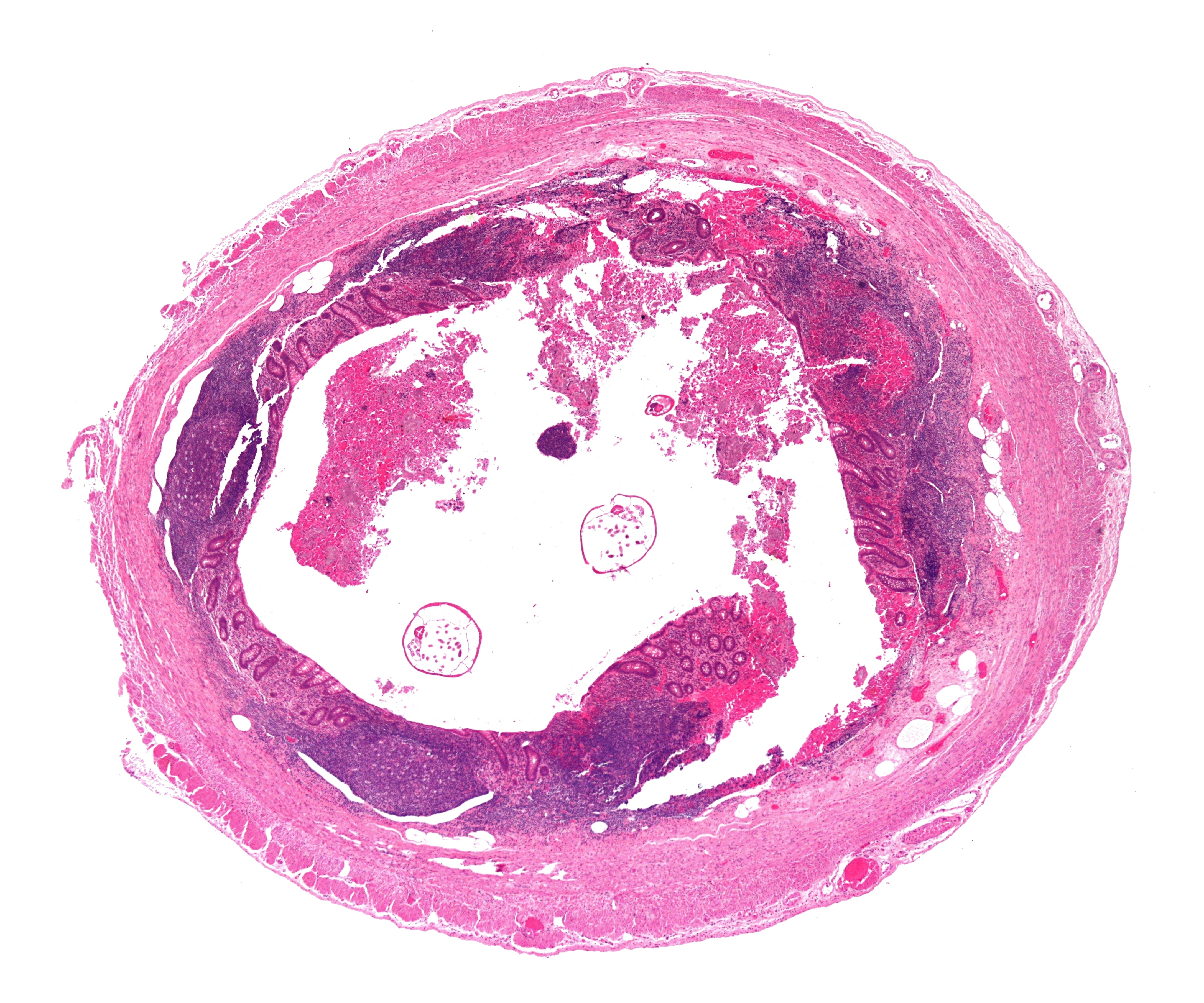 Very low magnification micrograph of an appendix with Enterobius vermicularis, also known as pinworm. H&E stain. Related images Very low mag. Low mag. Intermed. mag. High mag. Very high mag.